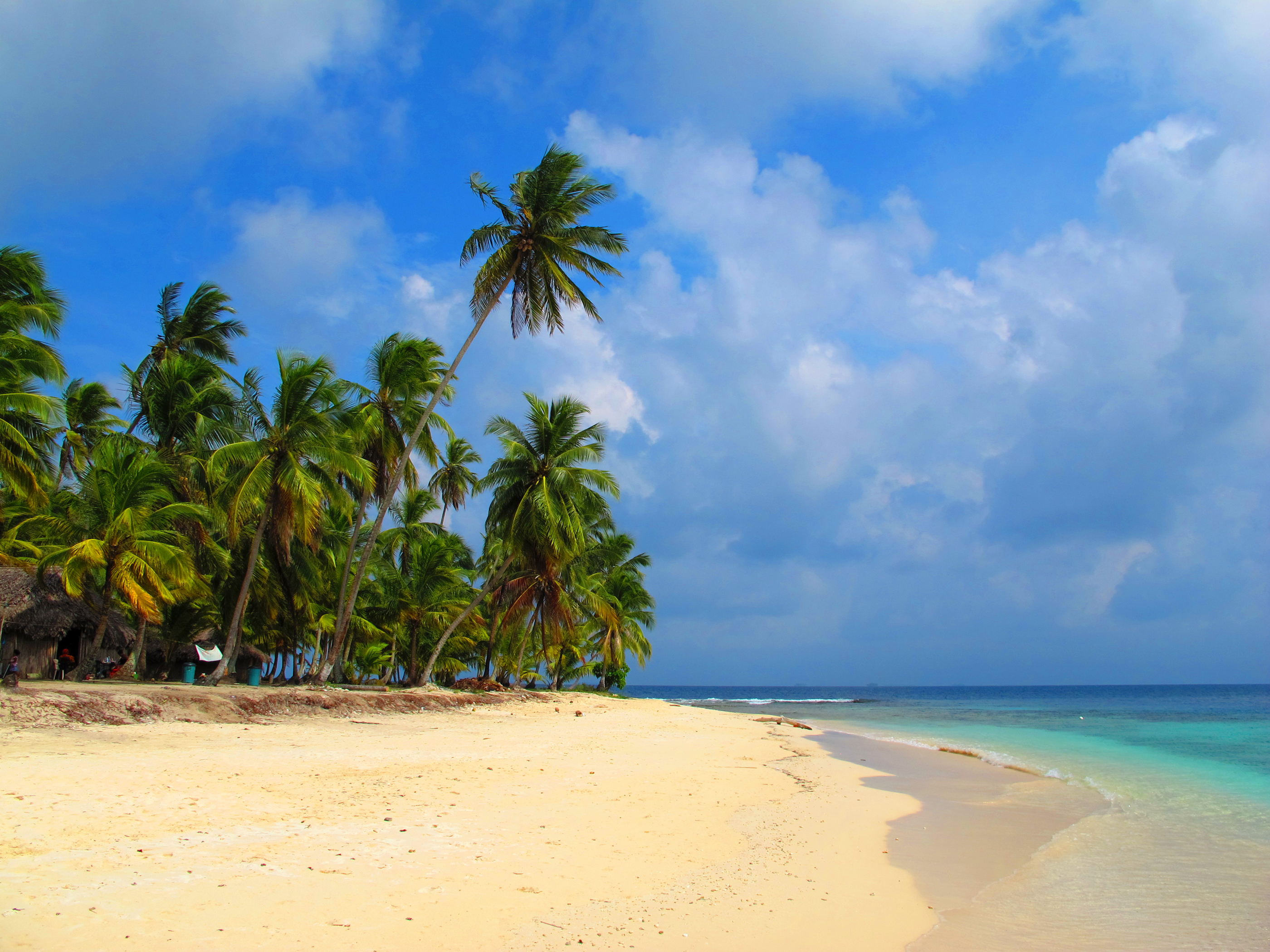 Beach on one of the San Blas Islands, Panama